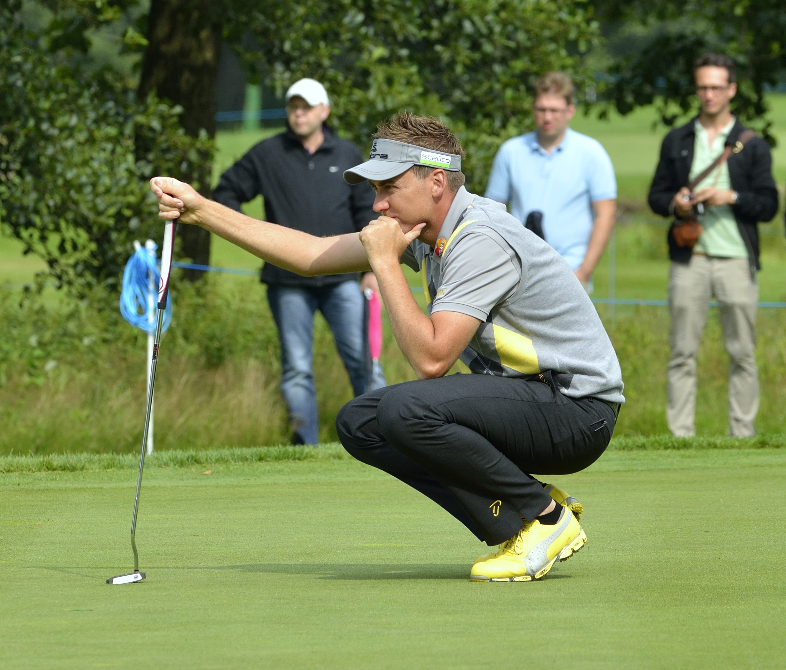 Ian Poulter at the Schüco Open 2012, Golfclub Gut Kaden